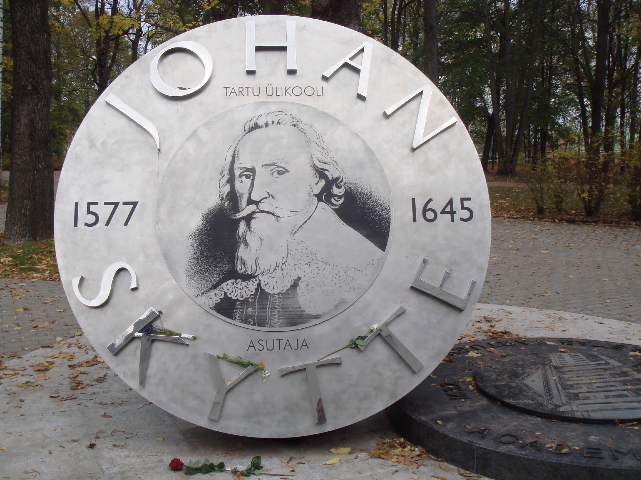 The sculpture turned out to be memorial to Johan Skytte